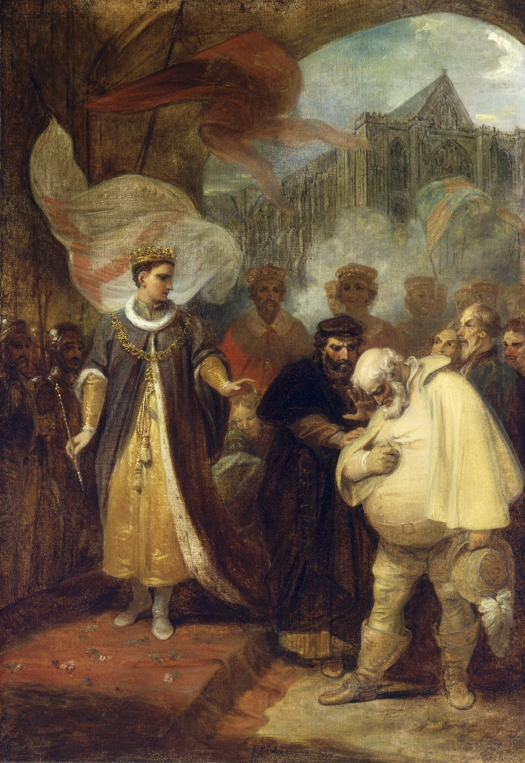 From Act V, Scene 5 of William Shakespeare's Henry IV, Part 2